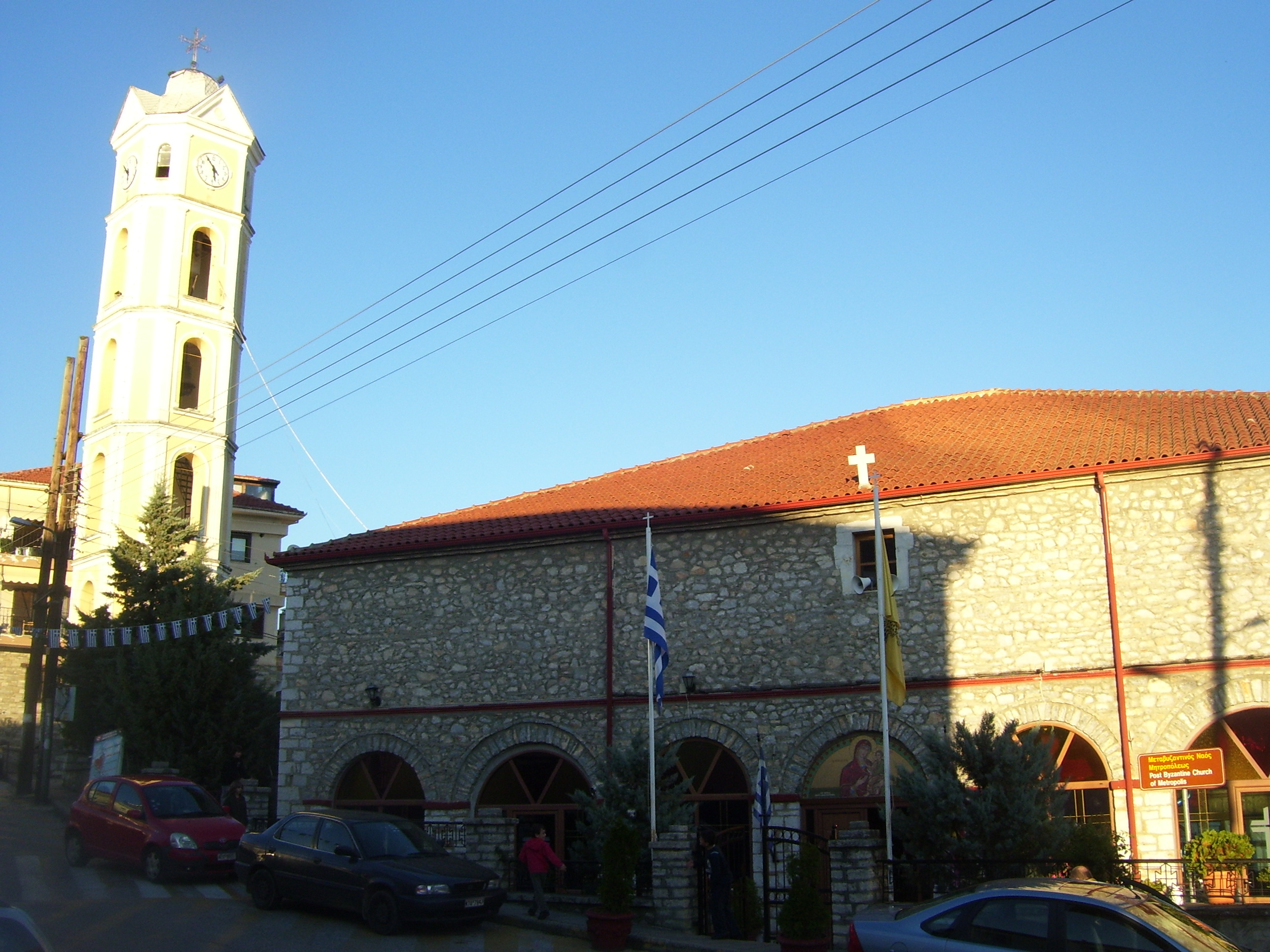 Assumption of Mary Church, Kastoria